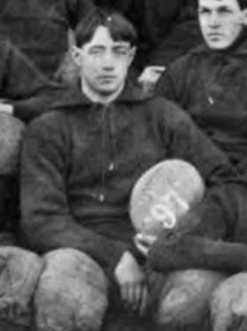 Dr. James Morrison captaining the 1897 Virginia football team